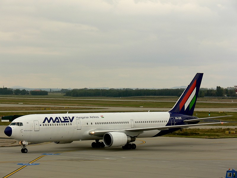 Boeing 767-300ER Malév Hungarian Airlines